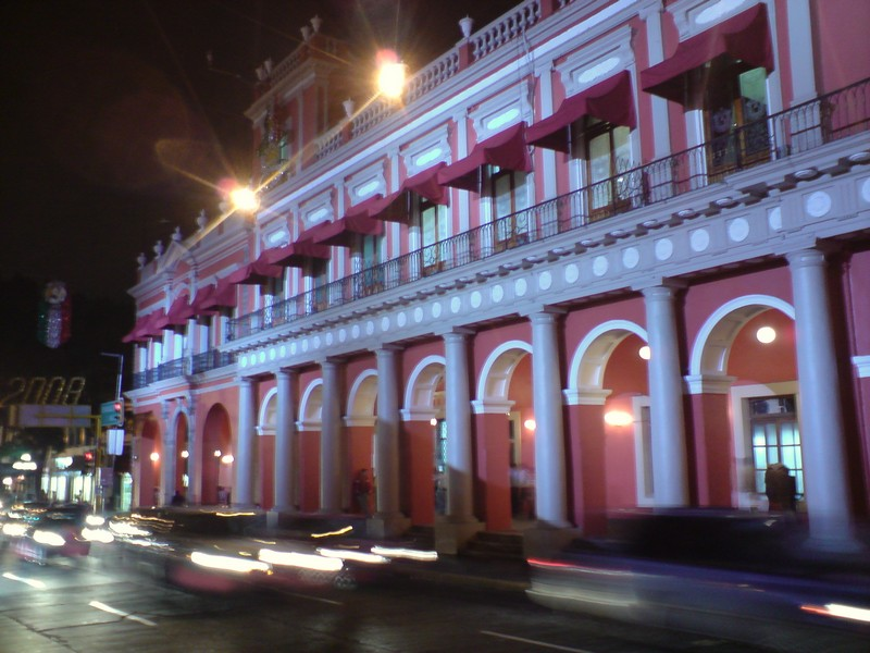 Xalapa Cityhall by night